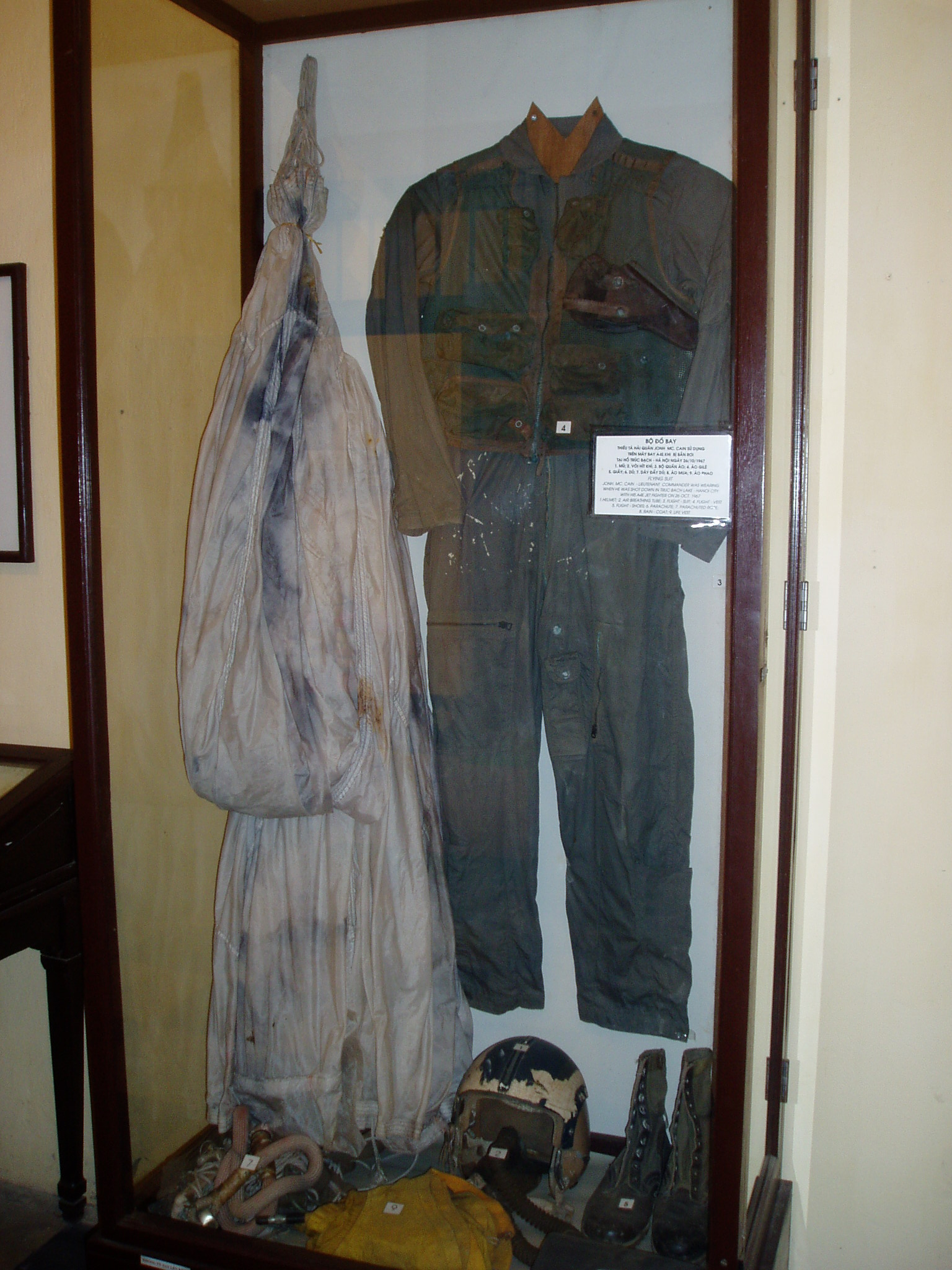 Photo of John McCain's Flight suit and flight gear on display at Hoa Loa Prison taken in December 2006